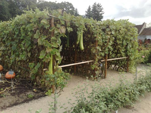 Château de Chenonceau - vegetables garden,09.2008.